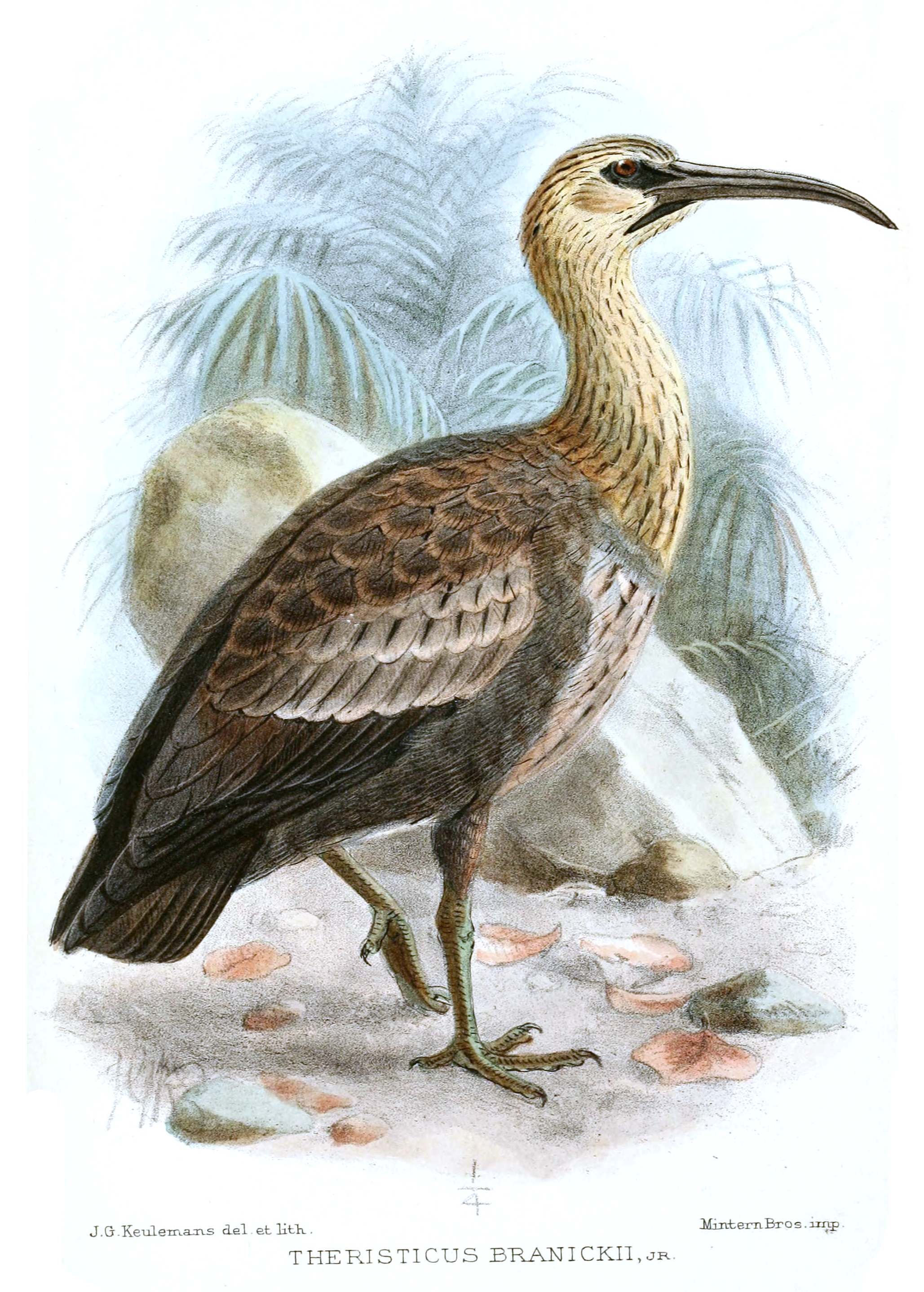 Theristicus branickii juvenile = Theristicus melanopis branickii